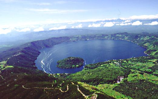 This is an aerial view of Lago Coatepeque. Also shown is the island, Teopan.